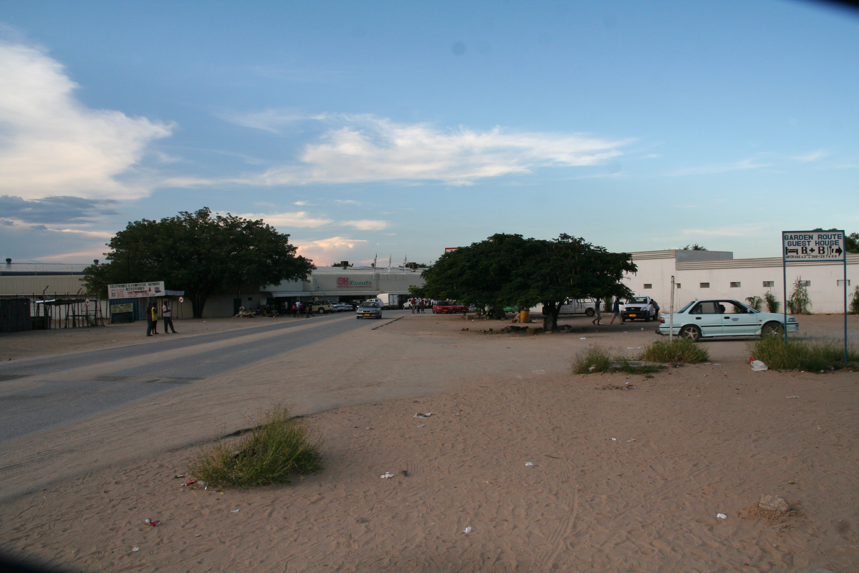 Ok Foods, Biggest supermarket in Rundu, city centre, shot on a sunday -17.912082,19.77116